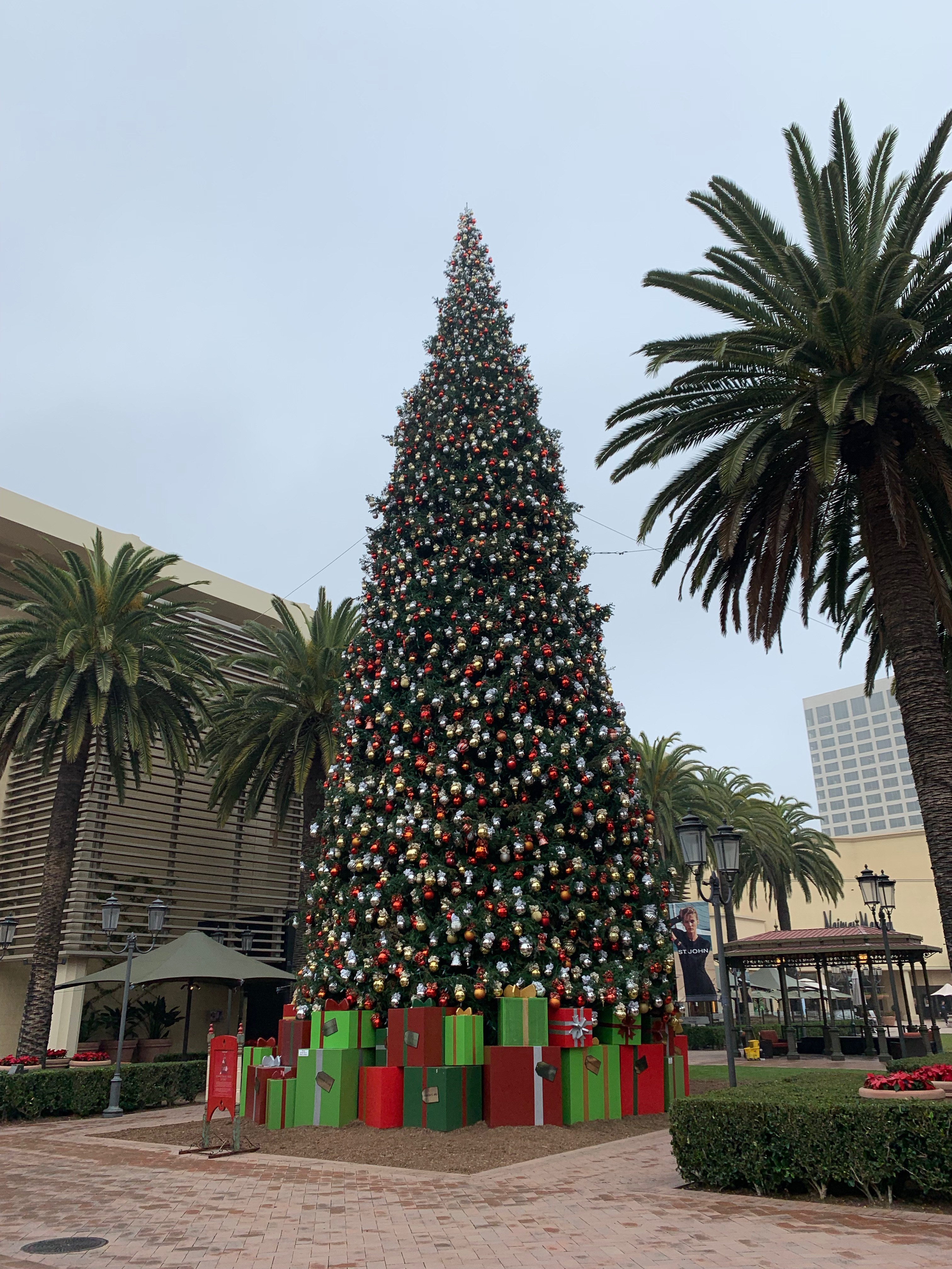 The 90-foot white fir tree decorated with 20,000 lights and ornaments at Fashion Island, Newport Beach, CA.